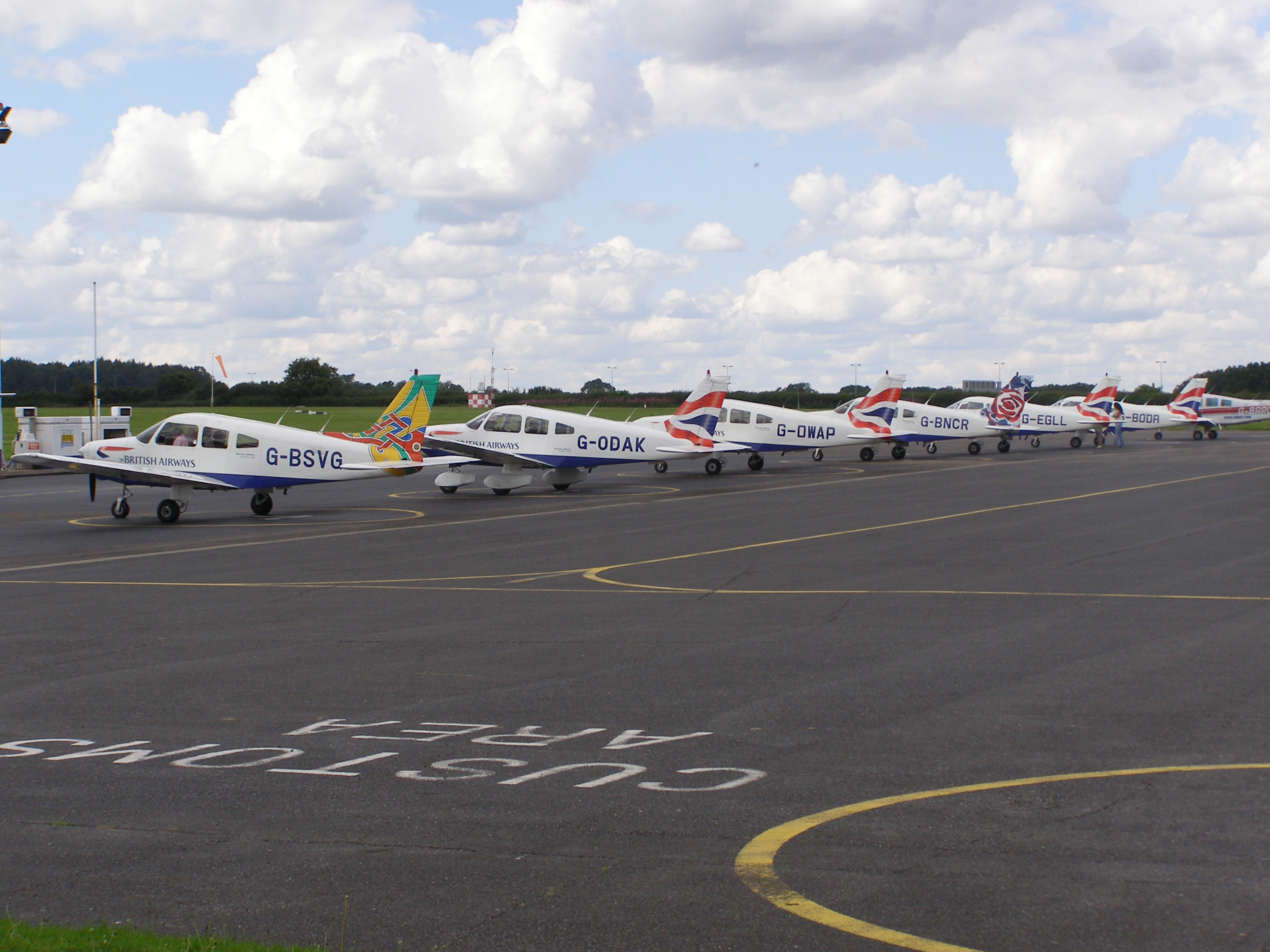 British Airways flying club aircraft at Booker airfield, England